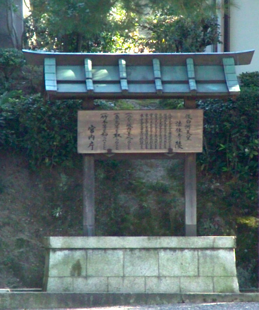 Tomb of Emperor Goshirakawa. Kyoto, Japan. I took this photo and contribute my rights in the file to the public domain; individuals and organizations retain rights to images in the file.